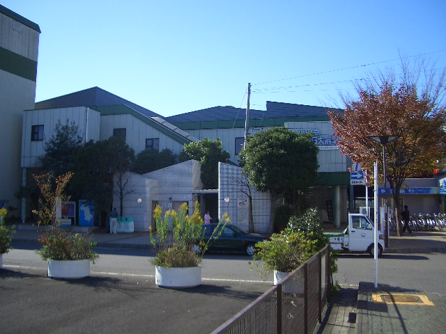 Mutsuai-Nichidaimae Station East Exit, on the Odakyu Enoshima Line, Fujisawa, Kanagawa 六会日大前駅